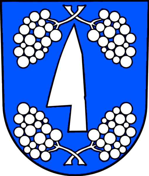 Municipal coat of arms of Klentnice village, Břeclav District, Czech Republic.